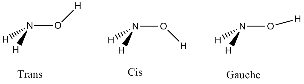 Drawing of the hydroxylamine structure showing the trans-, cis-, and gauche-conformations. Drawn with ChemBioDraw Ultra 12.02